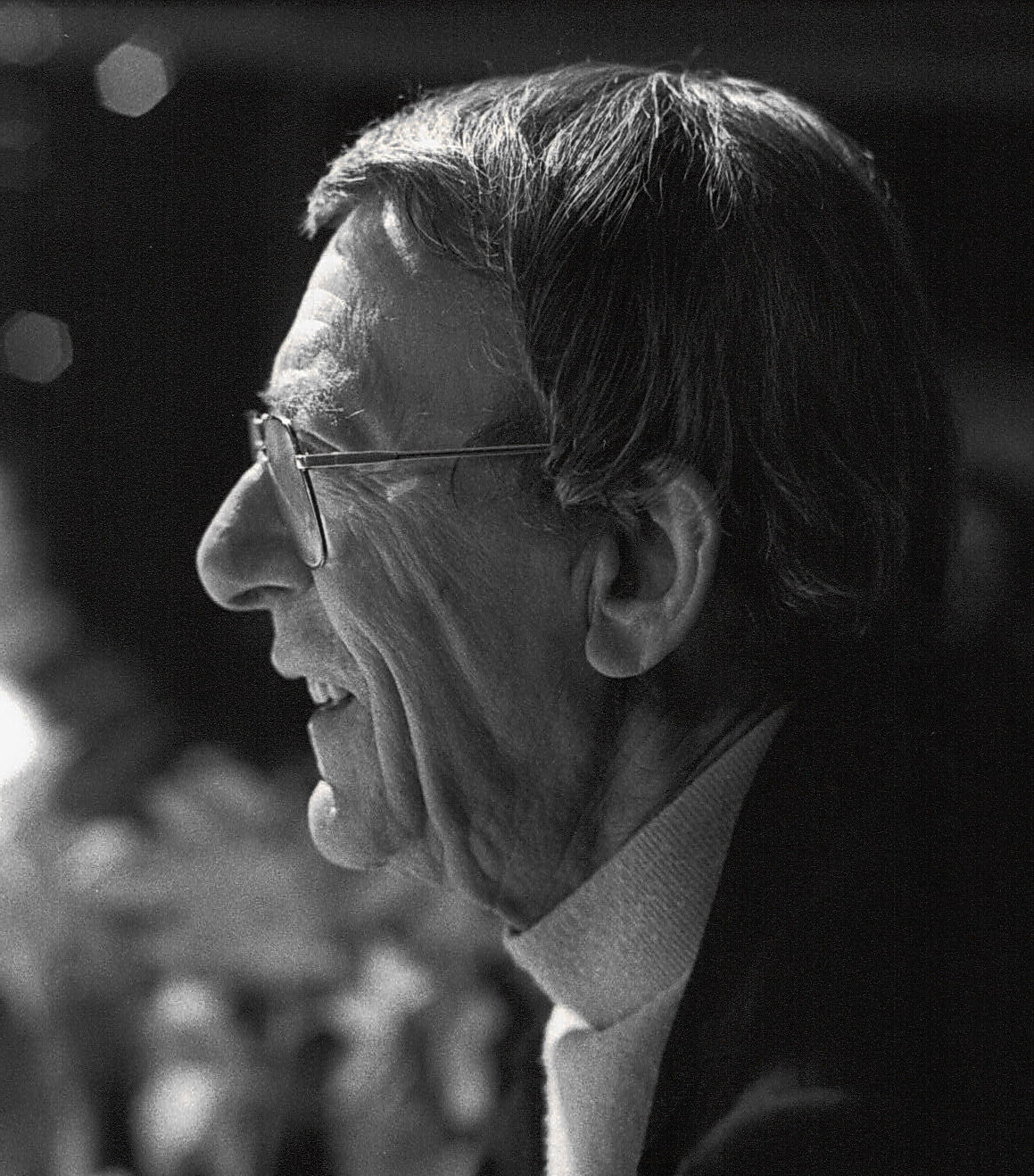 The German painter Blasius Spreng